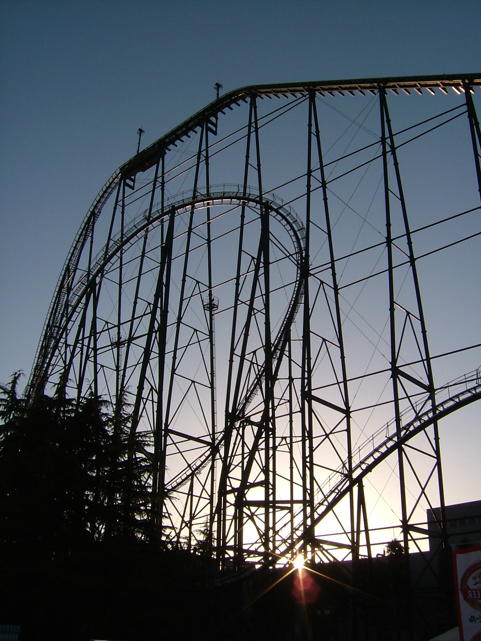 Fujiyama rollercoaster at Fuji-Q Highland amusement park, Japan. I took this photo with a digital camera in late afternoon in May 2005.